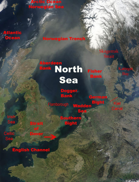 North Sea and naming of North Sea areas, and adjacent bodies of water